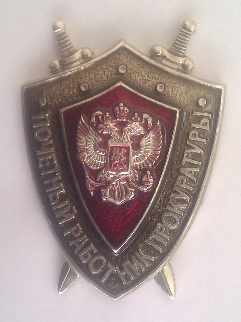 Znak Pochetny rabotnik prokuratury (old)